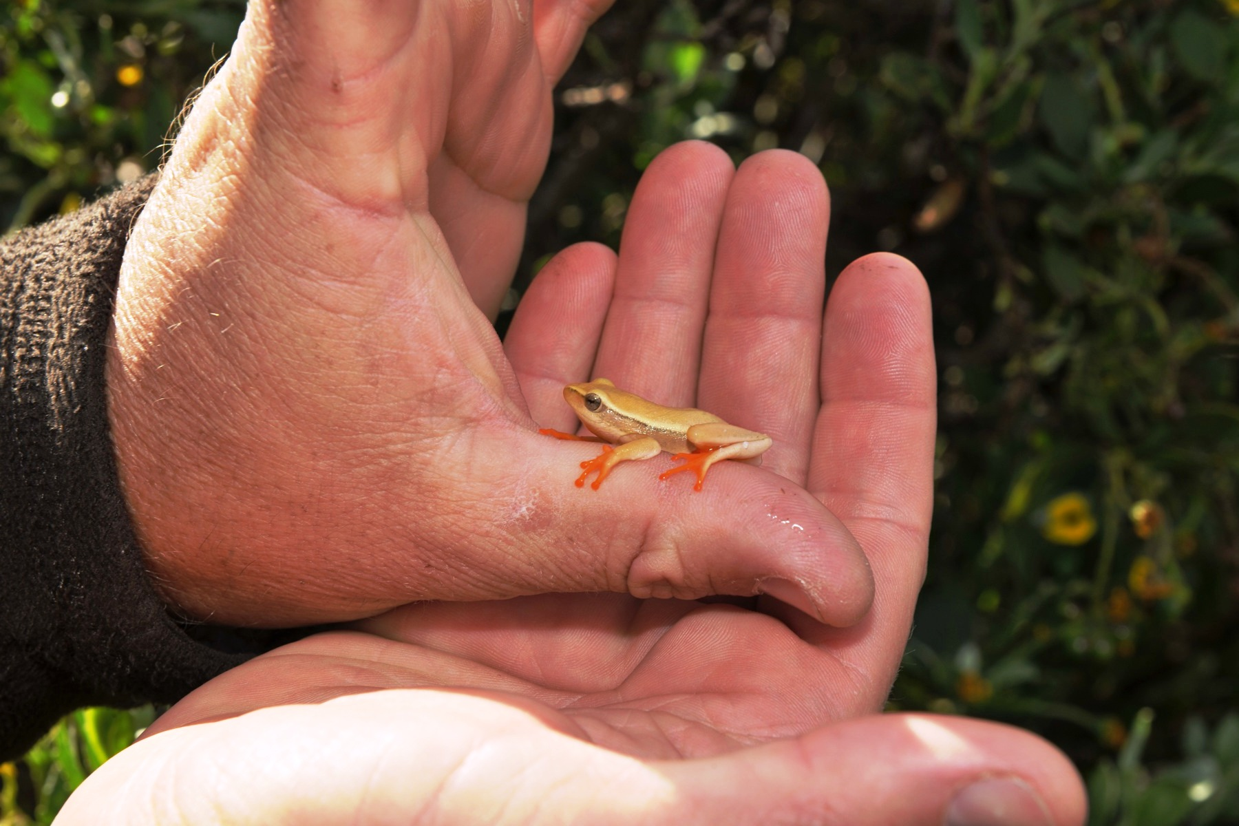 Hyperolius horstockii. The Arum Lily Frog. Photo taken in Cape Town.